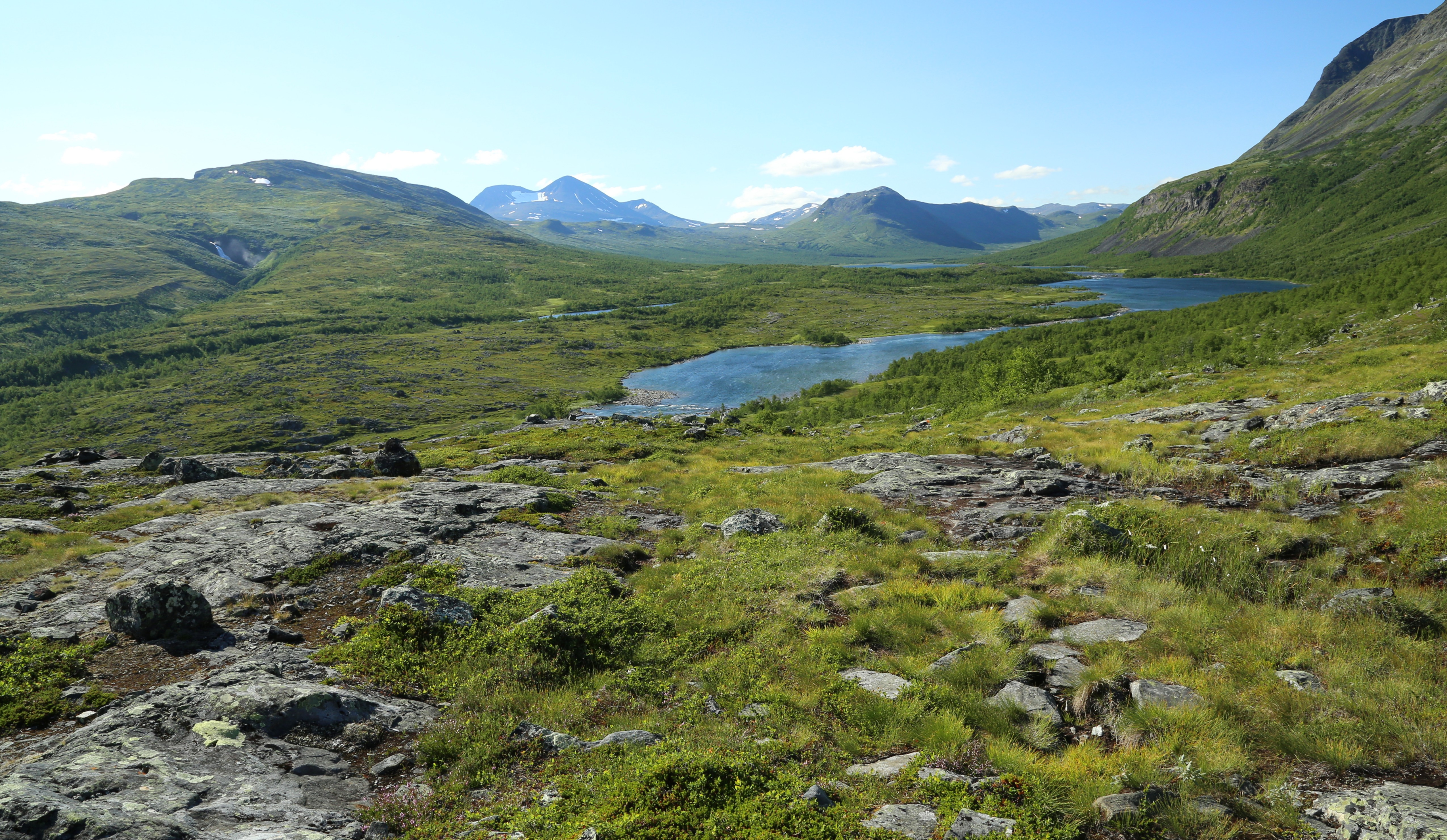 Tarrajaure seen from south (near Njunjes). This photograph was captured on the Padjelantaleden trail in Sweden, in July or August 2014. This photograph is part of a series, which can be found in full in Category:Padjelantaleden and Nordkalottleden Trip in 2014. Some files have GPS coordinates associated, for others, the following overview might be helpful: Click here for approximate location at each date 25.7. Kvikkjokk and Njunjes 26.7. Njunjes and Tarrekaise 27.7. Tarrekaise and Sammerlappa, before the entrance to Padjelanta National Park 28.7. Tarraluoppal 29.7. Tuattar 30.7. Staloluokta 31.7. Arasluokta 1.8. Låddejåkkå 2.8. Kutjaure (Nordkalottleden) 3.8 + 4.8. Akkajaure, Akka mountains (Nordkalottleden and Padjelantaleden)